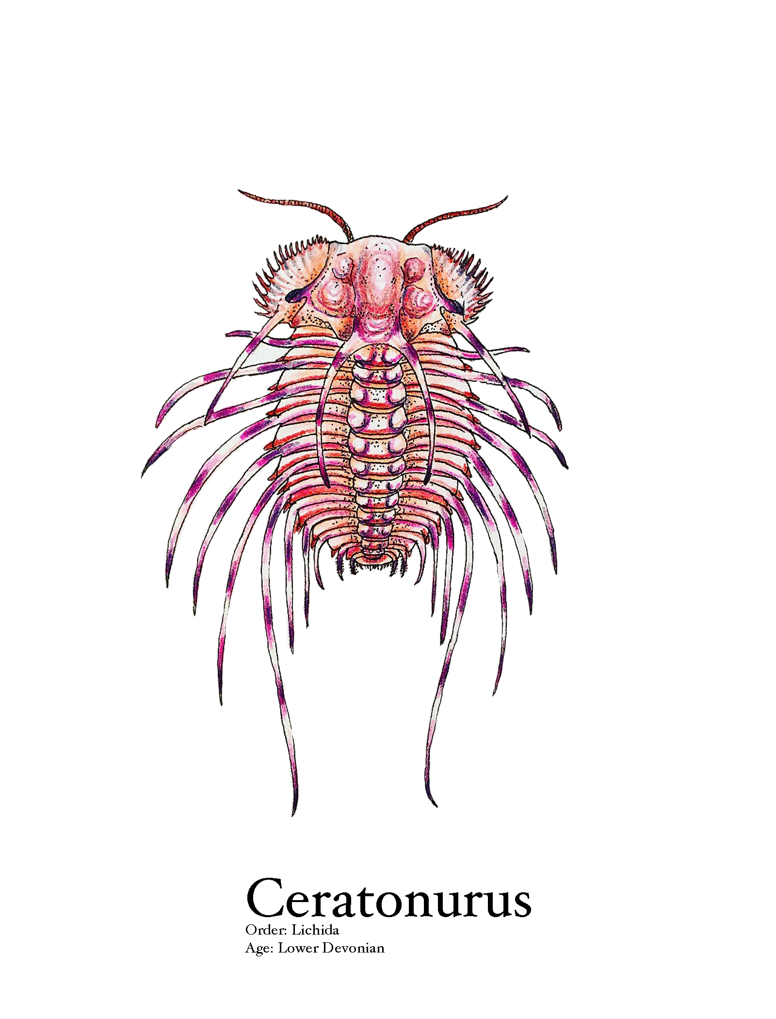 Ceratonurus plate.